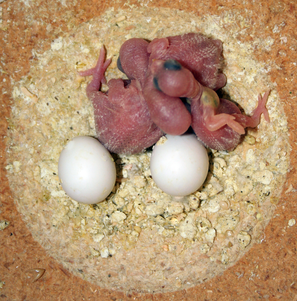 Budgerigar chicks and eggs in a nest box. They are the American Budgerigar or American Parakeet variety.